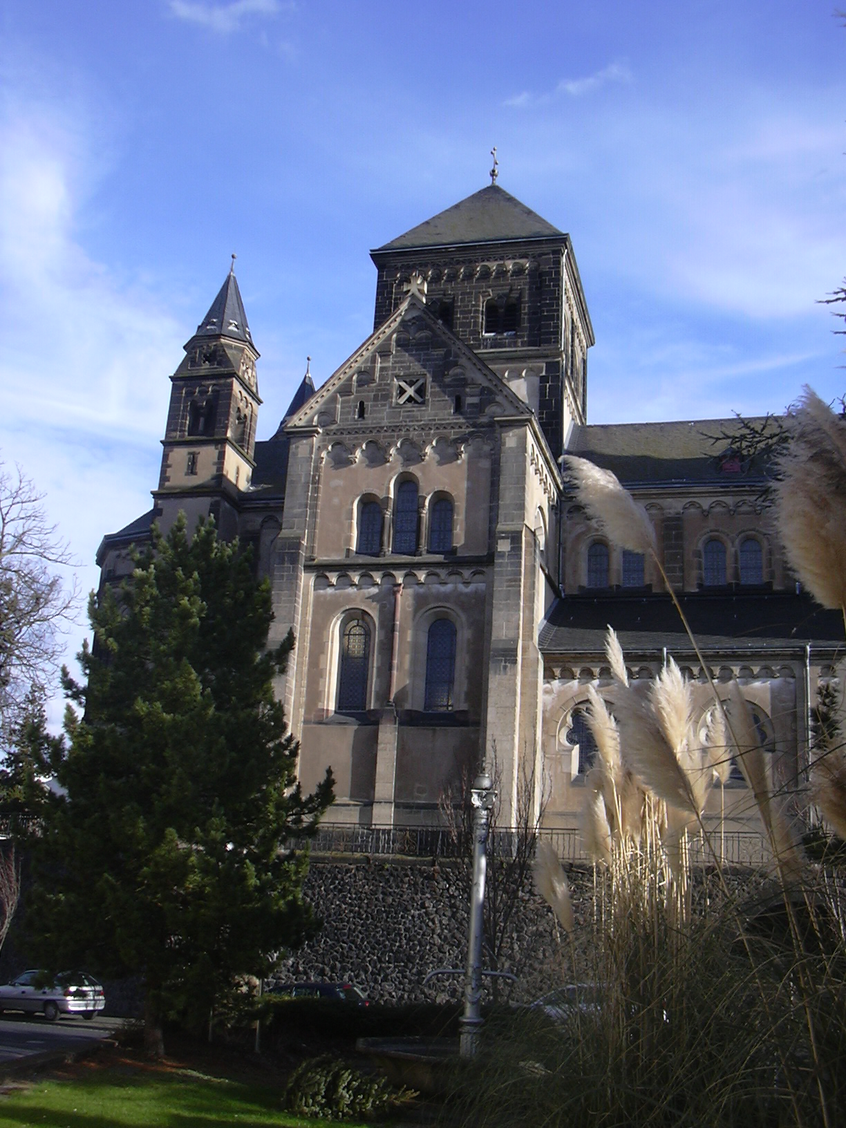 St. Peter and Paul, Remagen: Neo-Romanesque transept